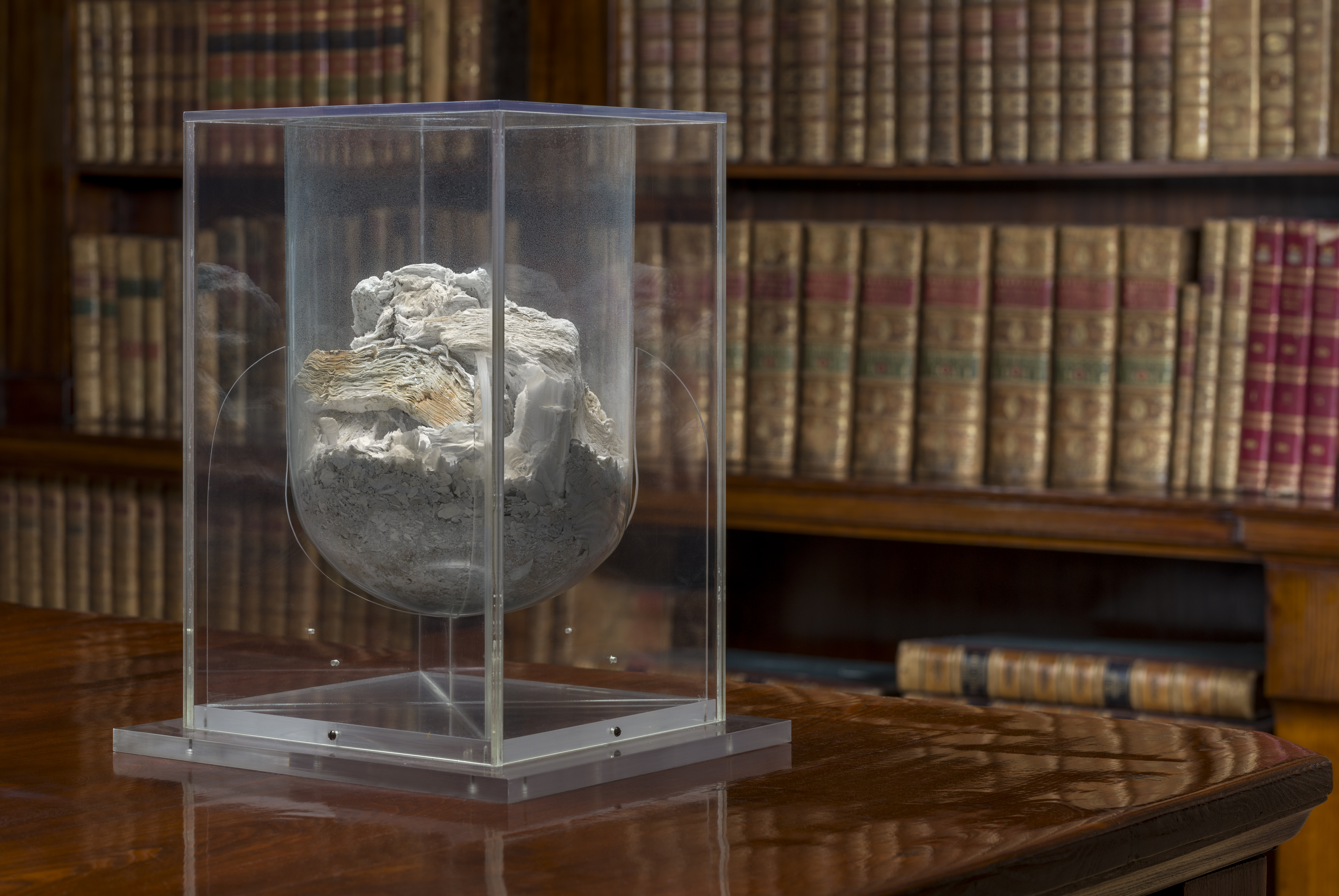 The urn containing ashes of early printed books and manuscripts burnt at Okólnik 9 after the fall of the Warsaw Uprsing.